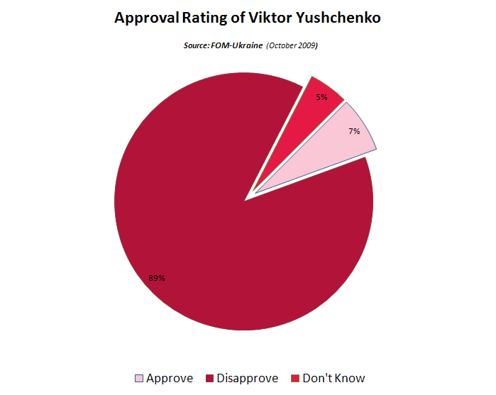 Approval rating of Victor Yushchenko according to FOM-Ukraine polling results as of April 30, 2009